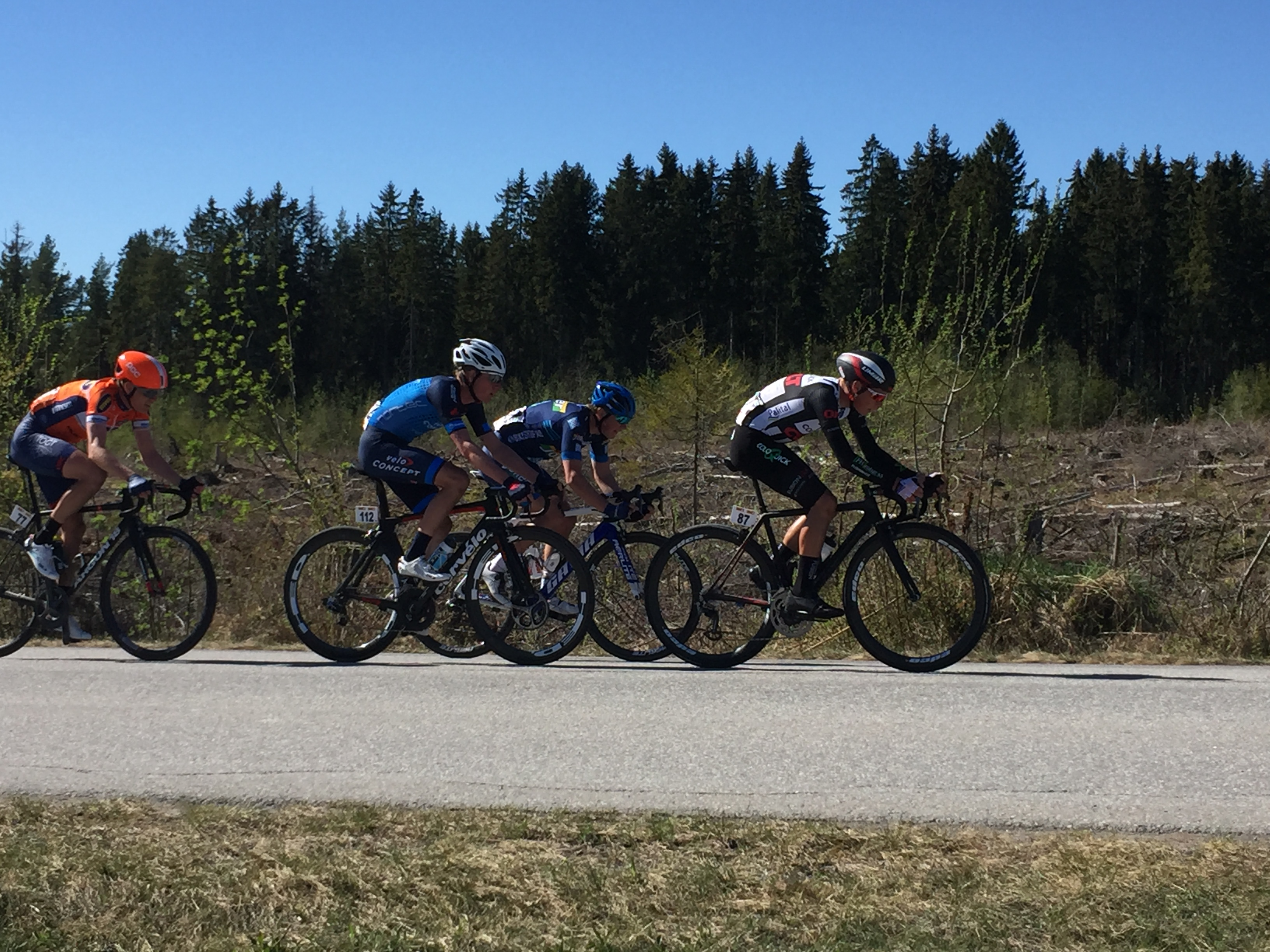 Ringerike GP 2017 - 87 - 112 - 77: 87 = Jonas Vingegaard Rasmussen (DEN, b. 1996), 7th place 112 = Rasmus Guldhammer Poulsen (DEN, b.1989), 1st place 77 = Troels Rønning Vinther (DEN, b.1987), 3rd place